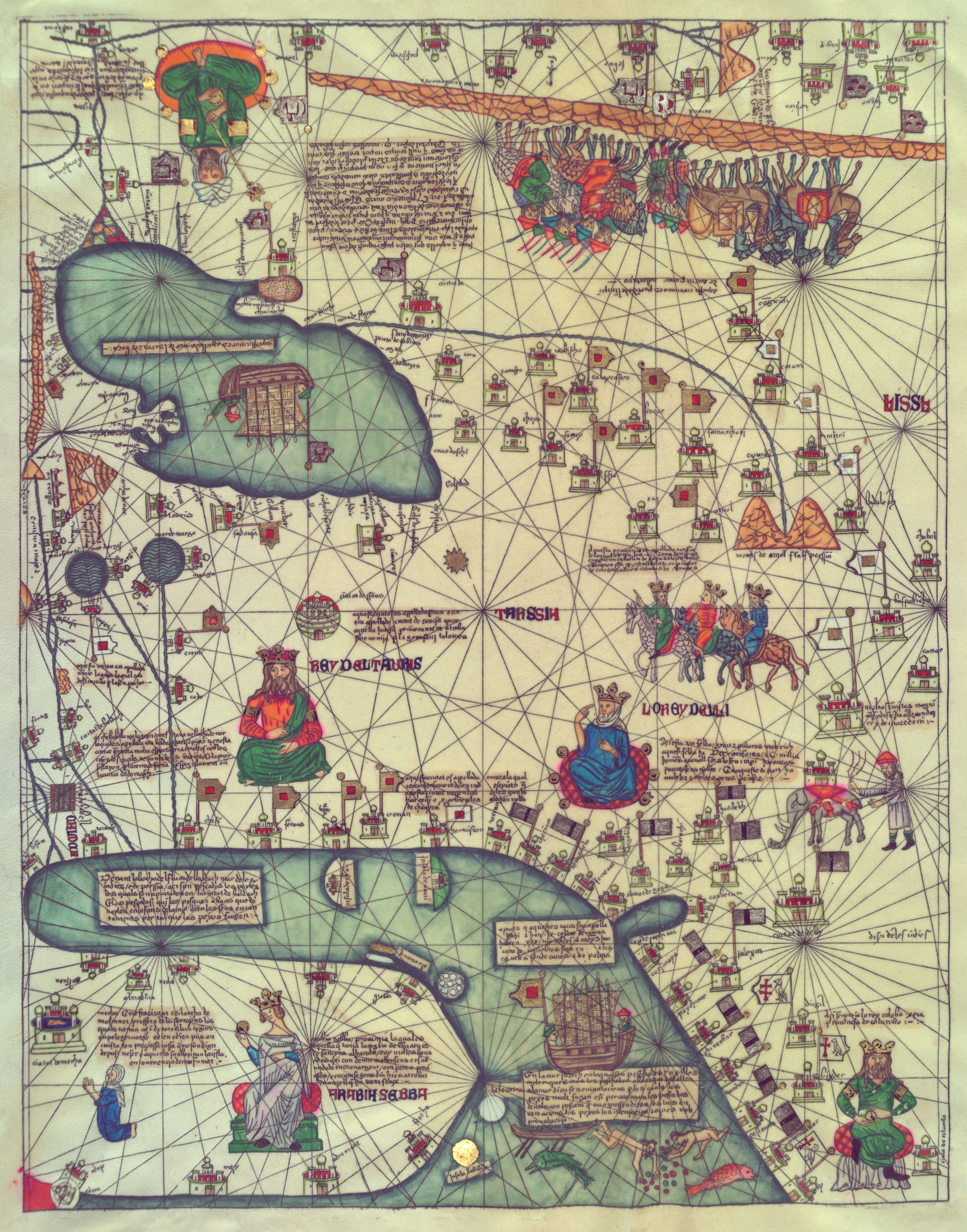 West Asia. Catalan Atlas reproduction.